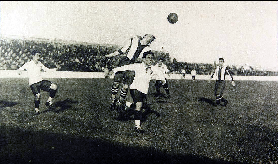 Colo-Colo, a football club from Chile, plays against Deportivo La Coruña, a Spanish football club. The game is taking place in La Coruña, Spain, in 1927. Forward David Arellano (center, white shirt) is famous for the dexterity and skill he demonstrated during the game.